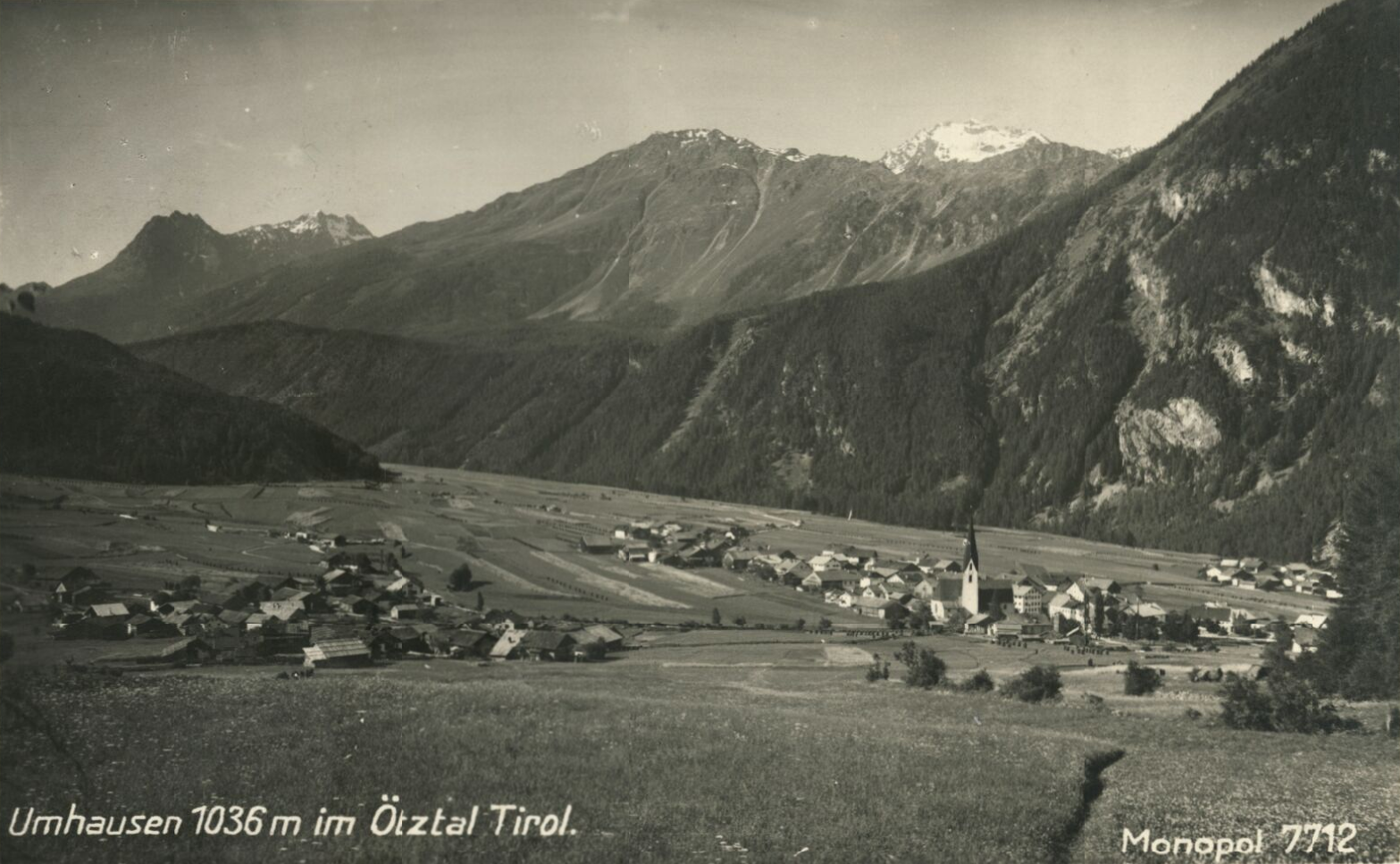 Histroric postal card from Umhaausen, view from south